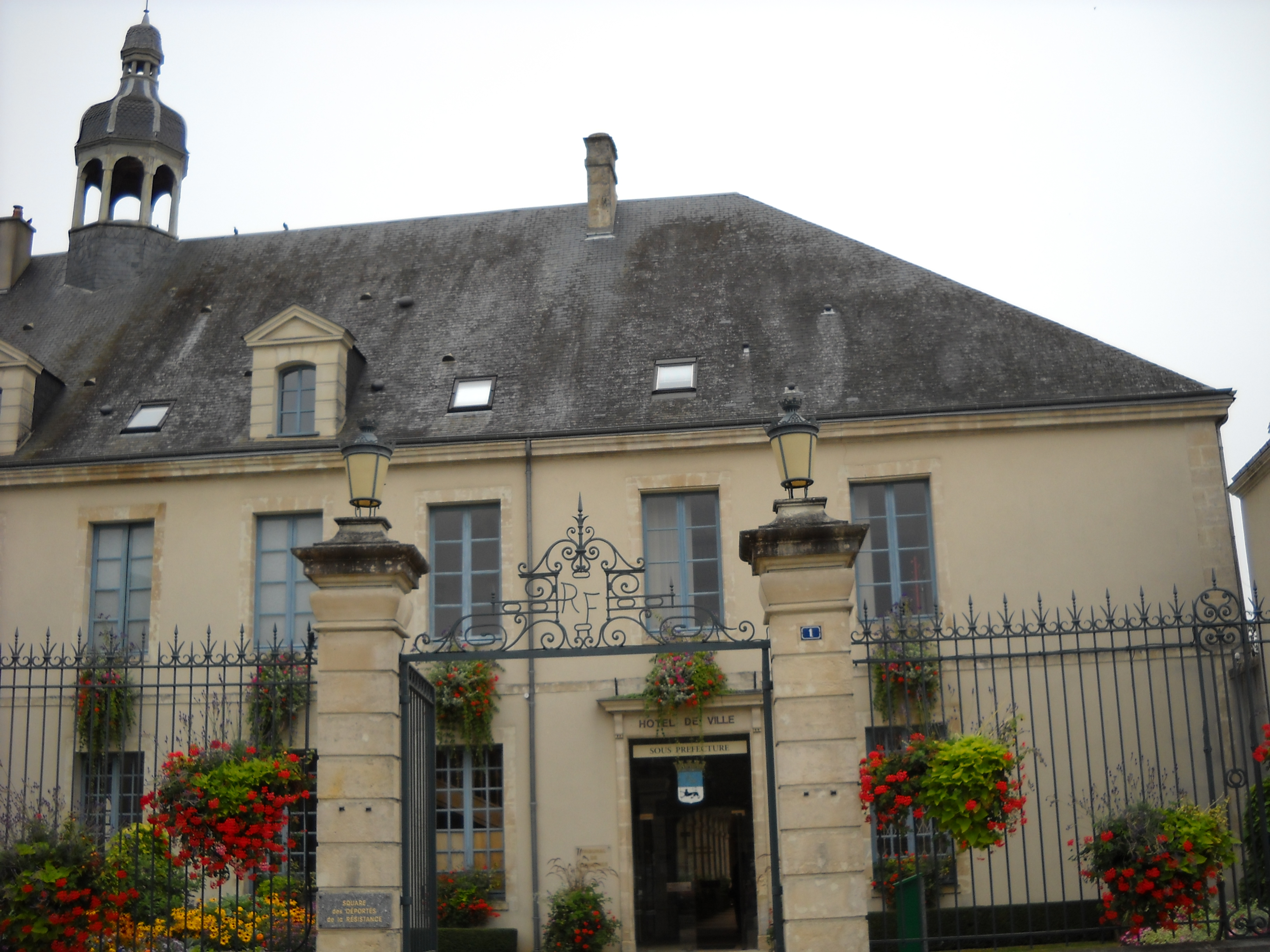 The entrance of both town hall and sous-préfecture of Mamers, Sarthe, France.